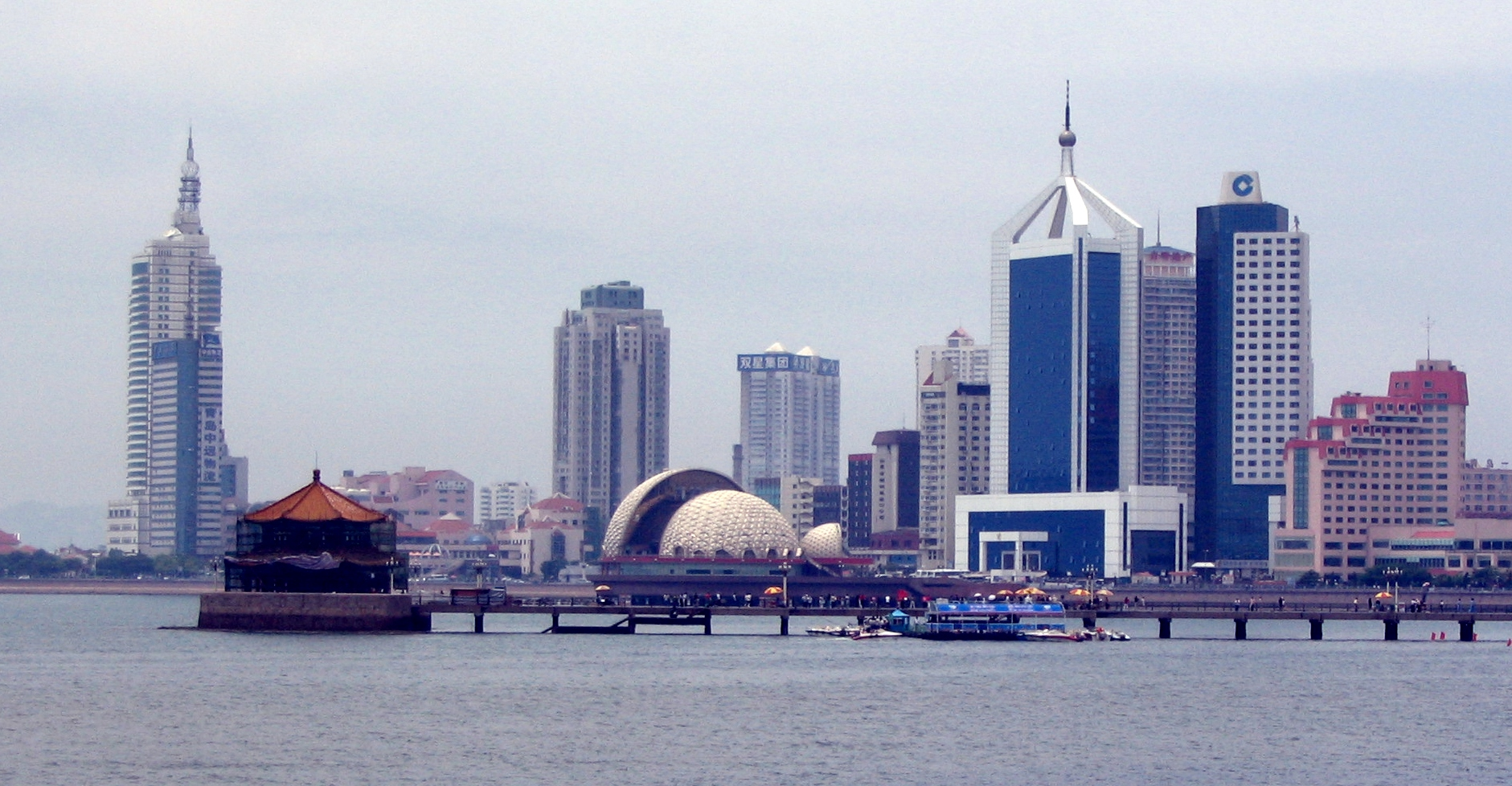 Zhan Qiao Pier at Qingdao, the two hemispheres behind are the Qingdao Opera.